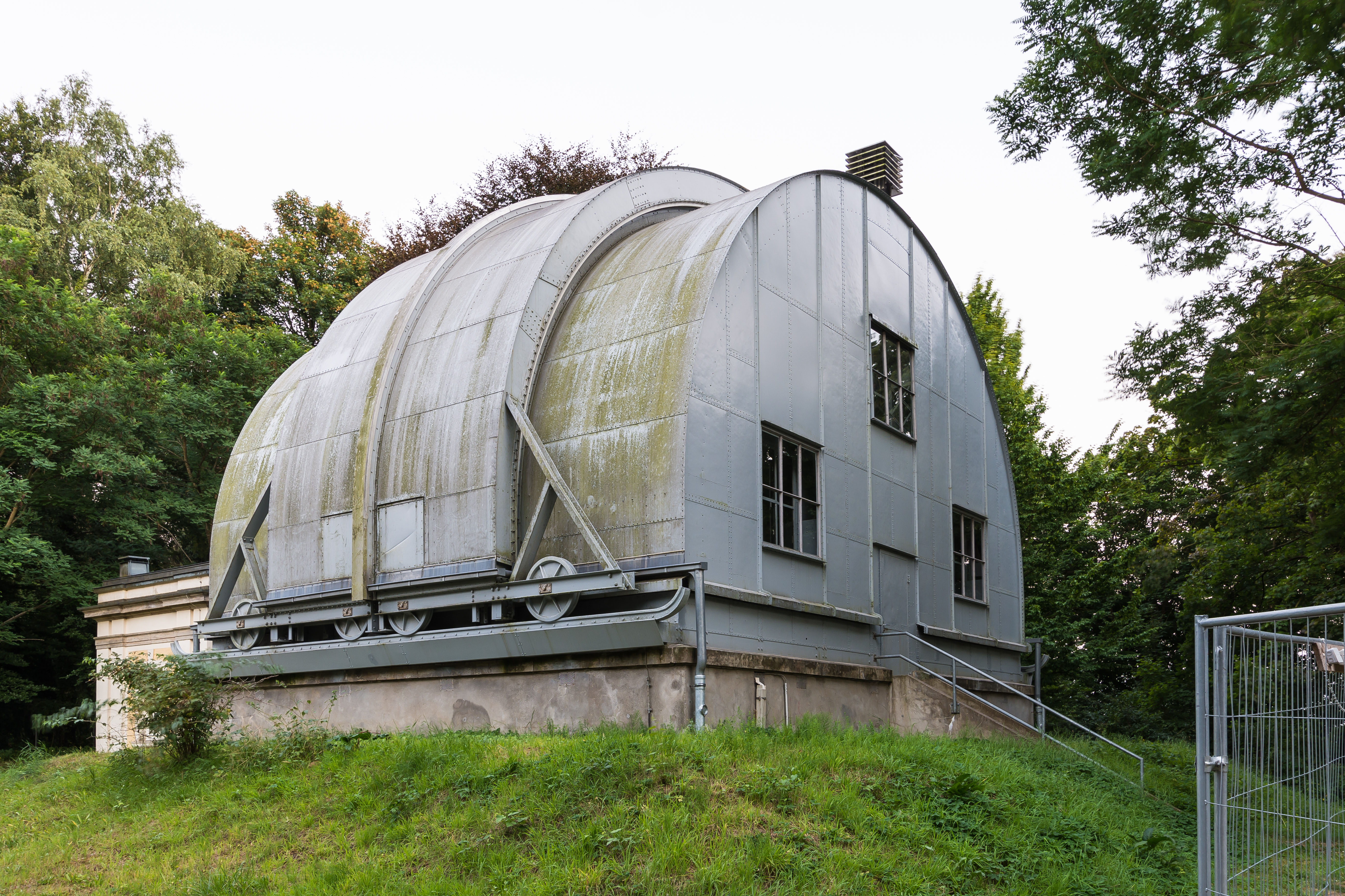 Hamburg Observatory, housing for the meridian circle. The building did not contain the meridian circle when this picture was taken, it was removed in 1967 and in 2018 it was apparently in storage at the German Museum in Munich.